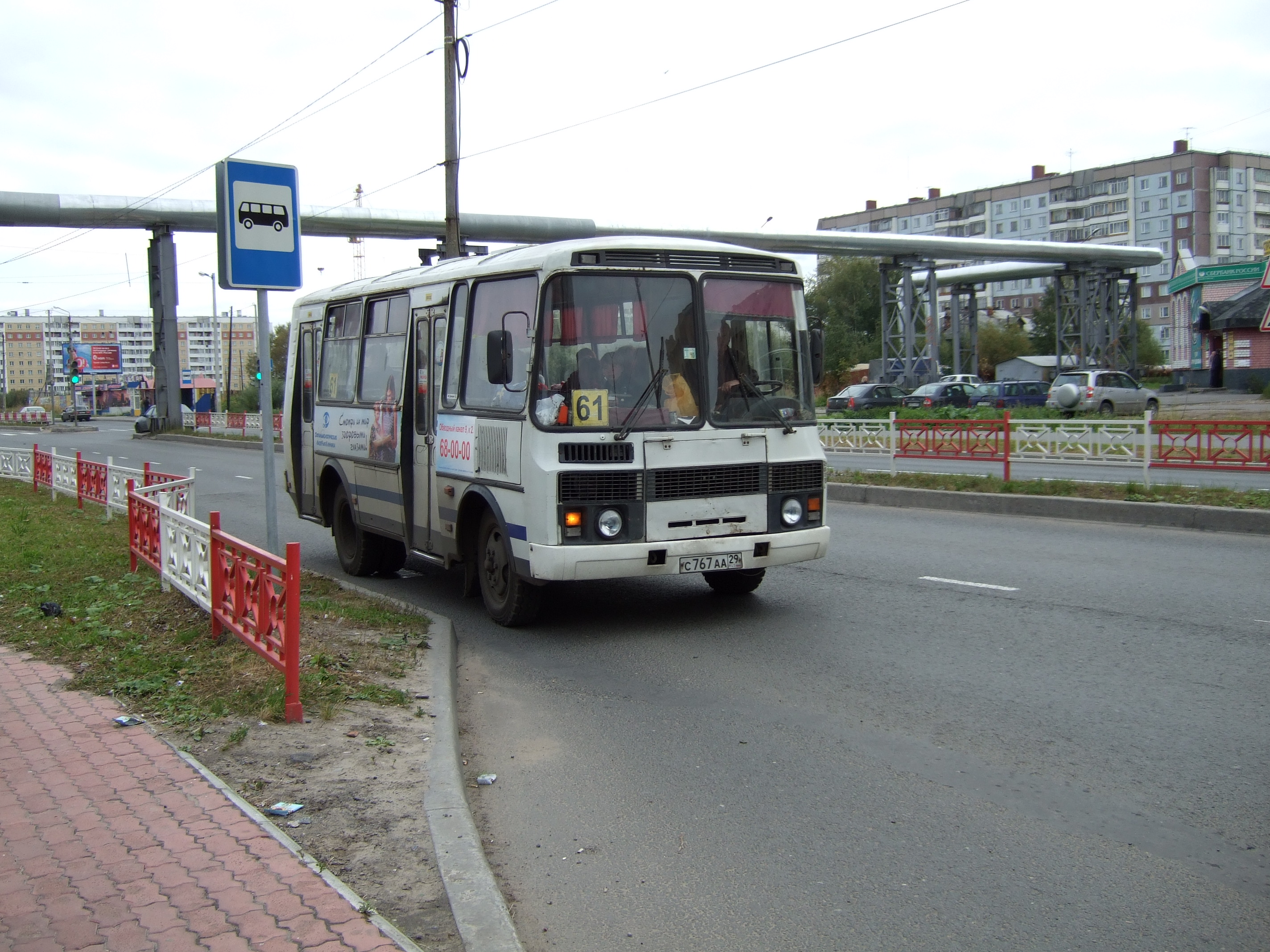 PAZ bus in Arkhangelsk